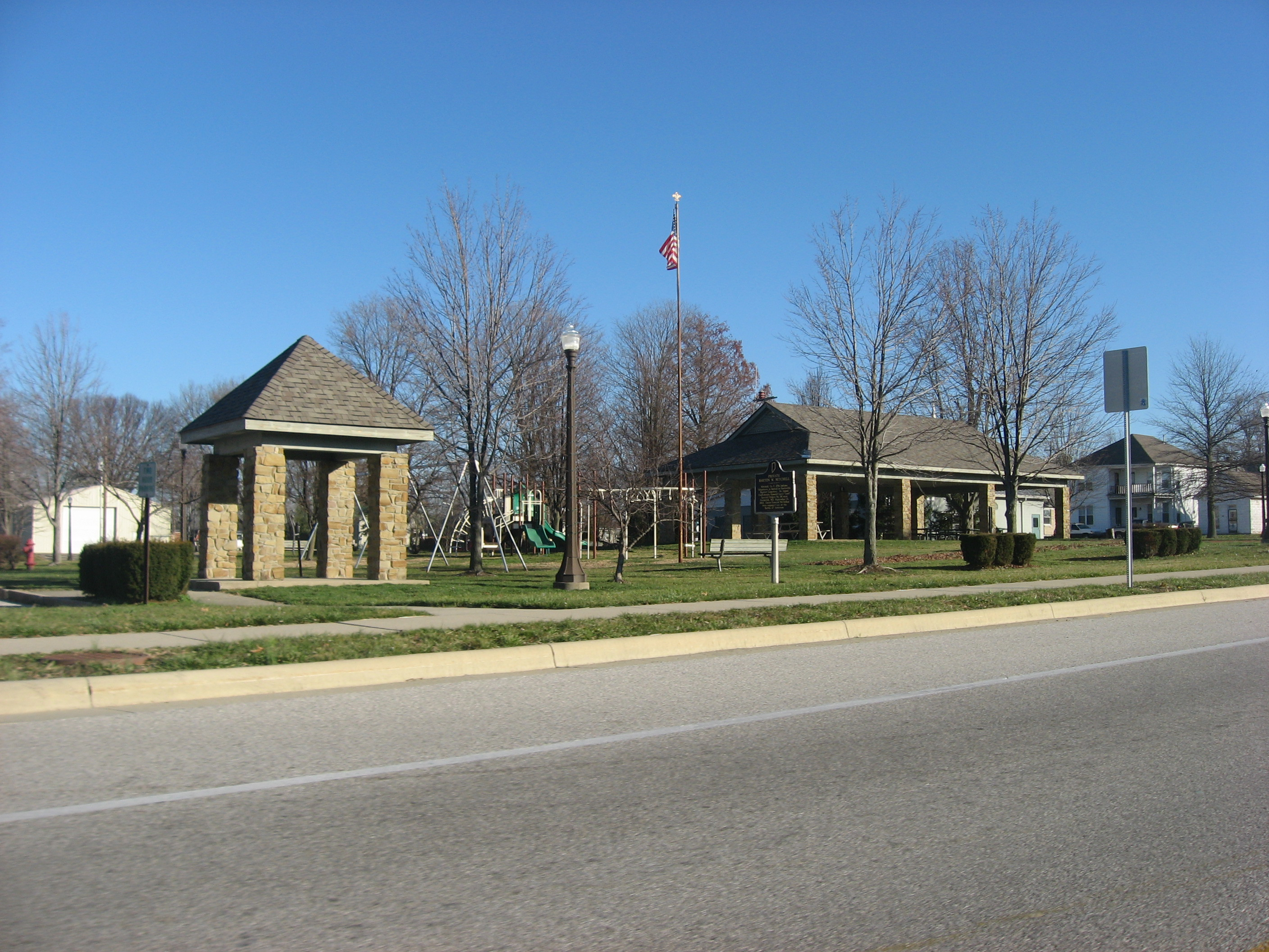 Southwestern corner of the town square in Hartsville, Indiana, United States, seen from State Road 46. The historical marker commemorates Hartsville native Corporal Barton W. Mitchell, whose discovery of Special Order 191 led to the Battle of Antietam in the American Civil War.